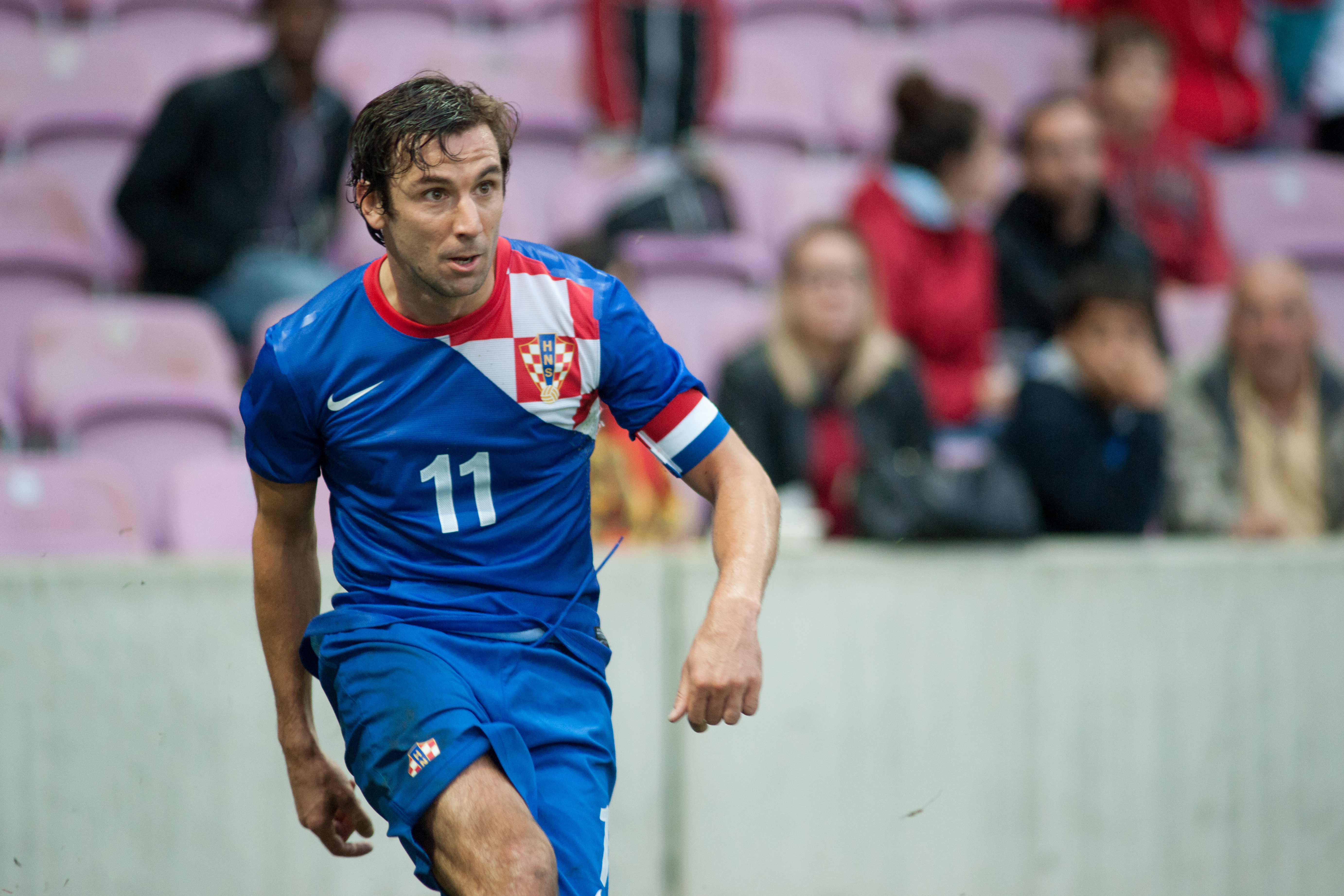 Croatia vs. Portugal, 10th June 2013